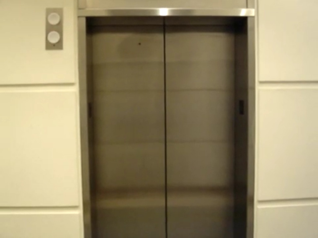 This is an Otis elevator.